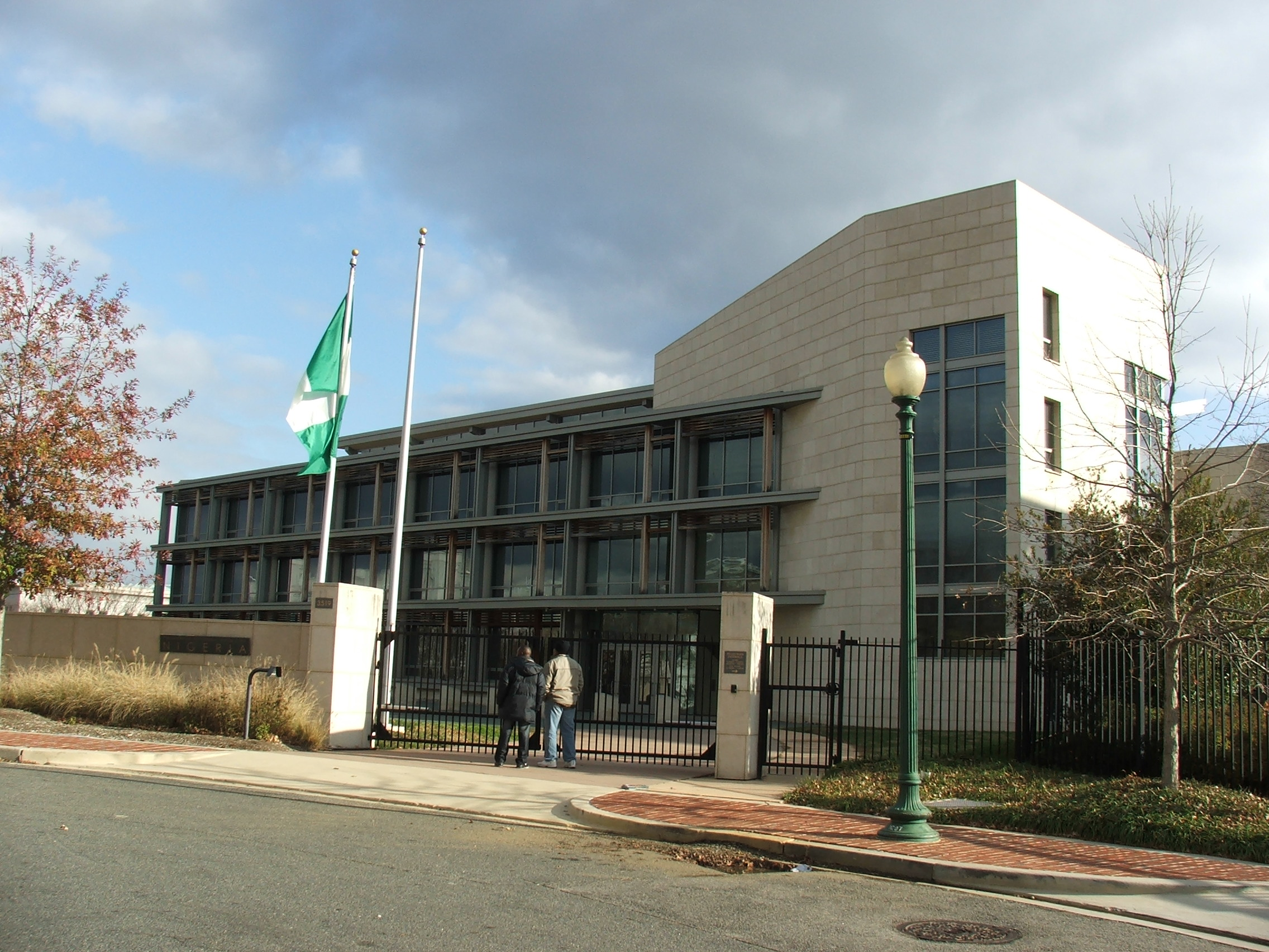 Embassy of the Federal Republic of Nigeria in the United States, located at 3519 International Court NW in Washington, D.C.